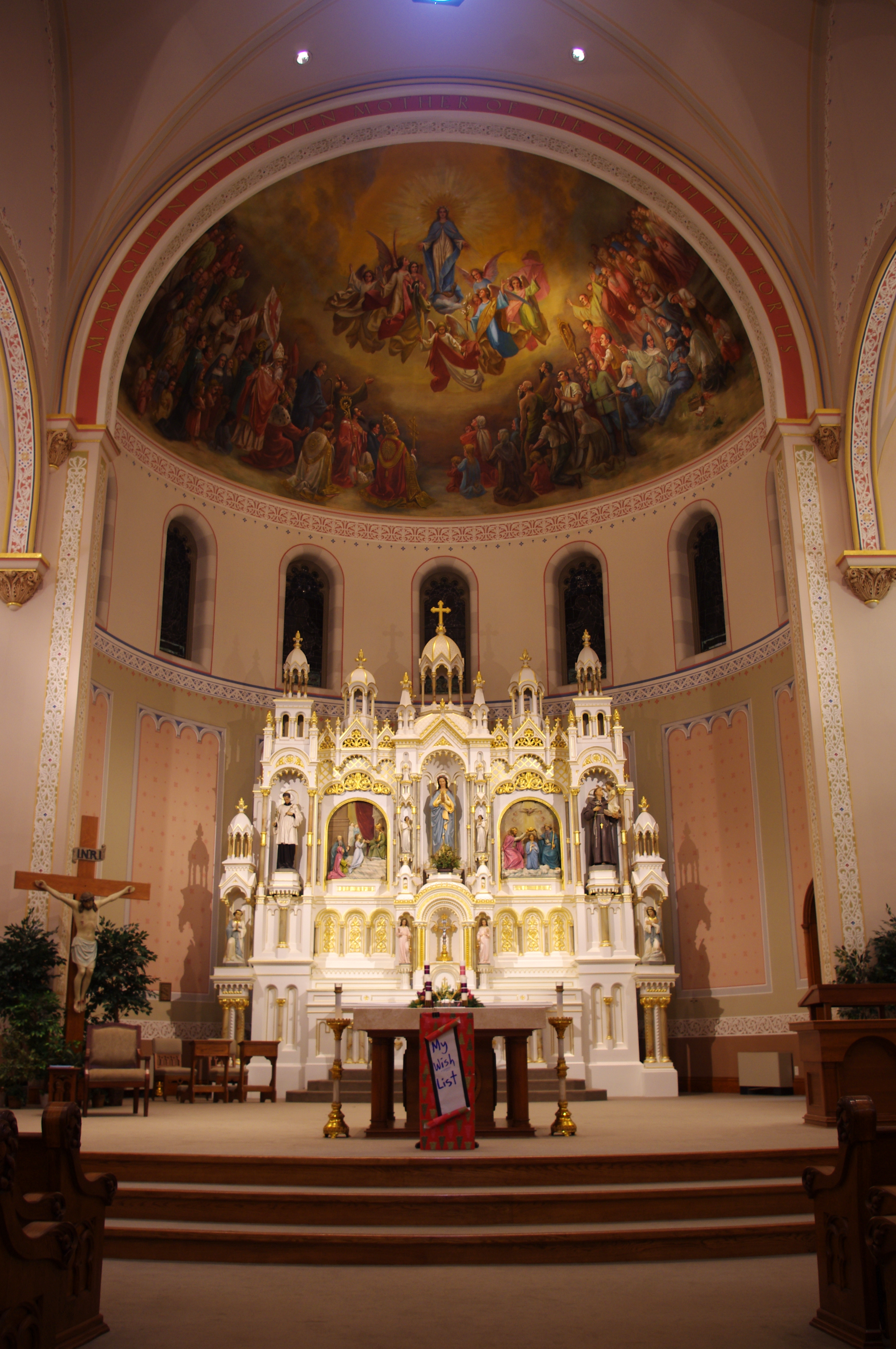 Immaculate Conception Catholic Church (Celina, Ohio) - interior, chancel and apse